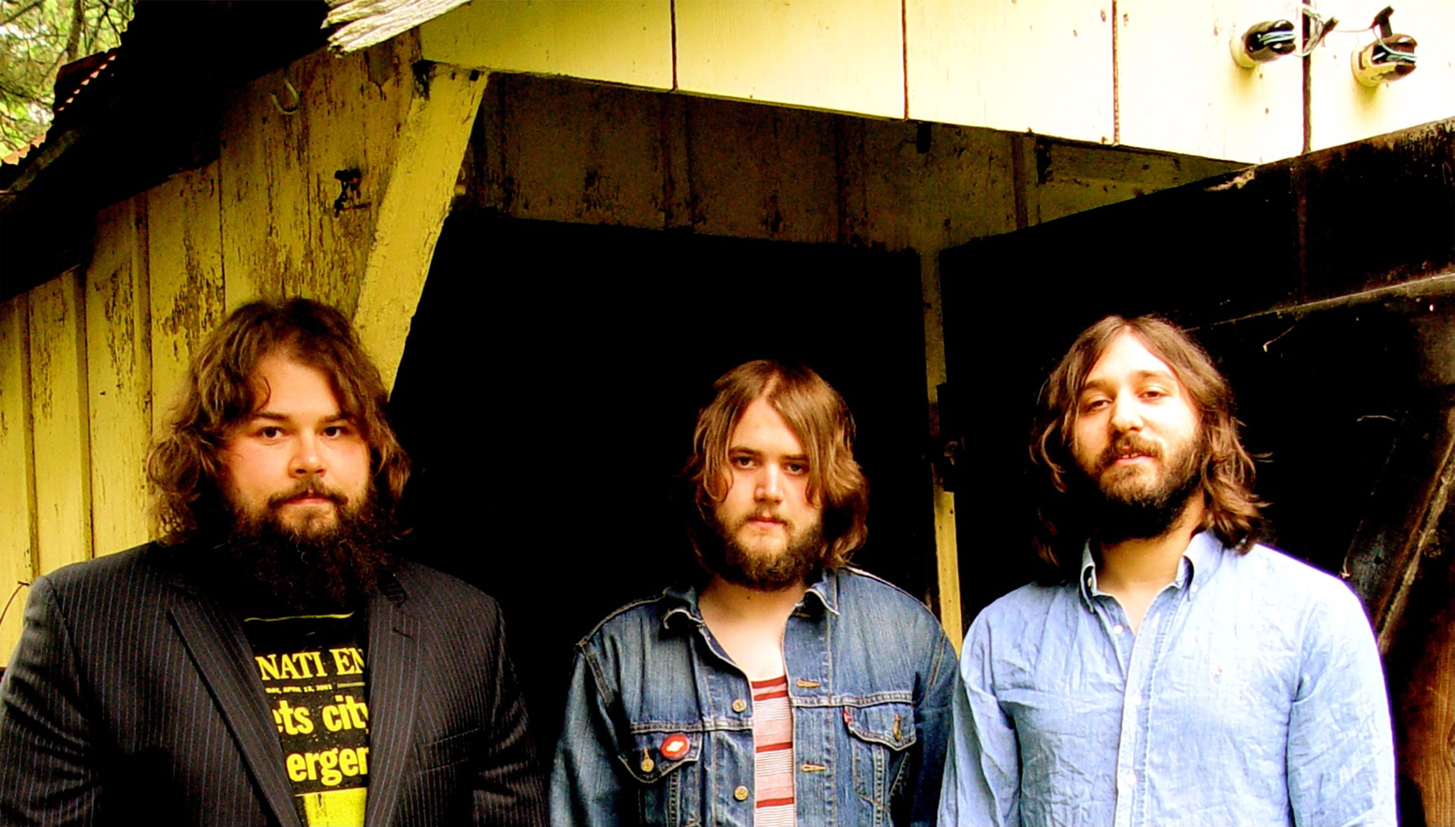 Buffalo Killers in 2011. From left to right: Zachary Gabbard (bass and vocals), Andrew Gabbard (guitar and vocals), Joseph Sebaali (drums)